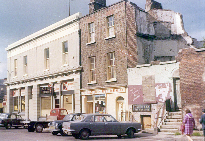 Photo of The Falcon, public house, in Dublin, Ireland, early 70s, taken by me. Scanned in by me.